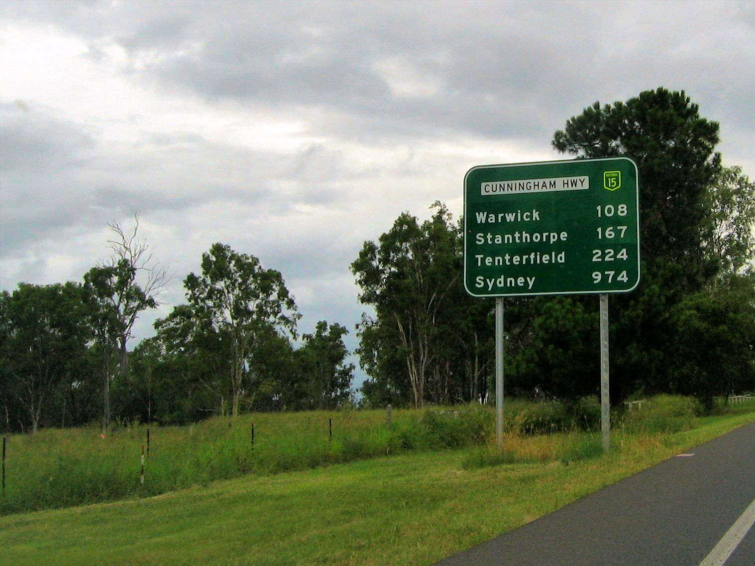 Part of Cunningham Highway